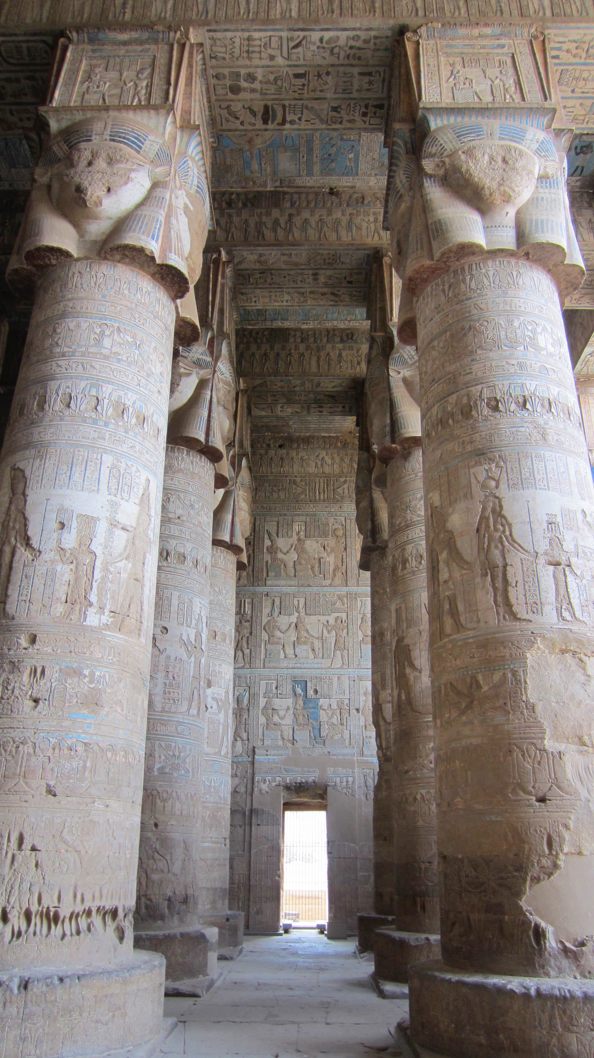 Hypostyle hall of Dendera Temple, looking from the central aisle west toward one of the side exits.